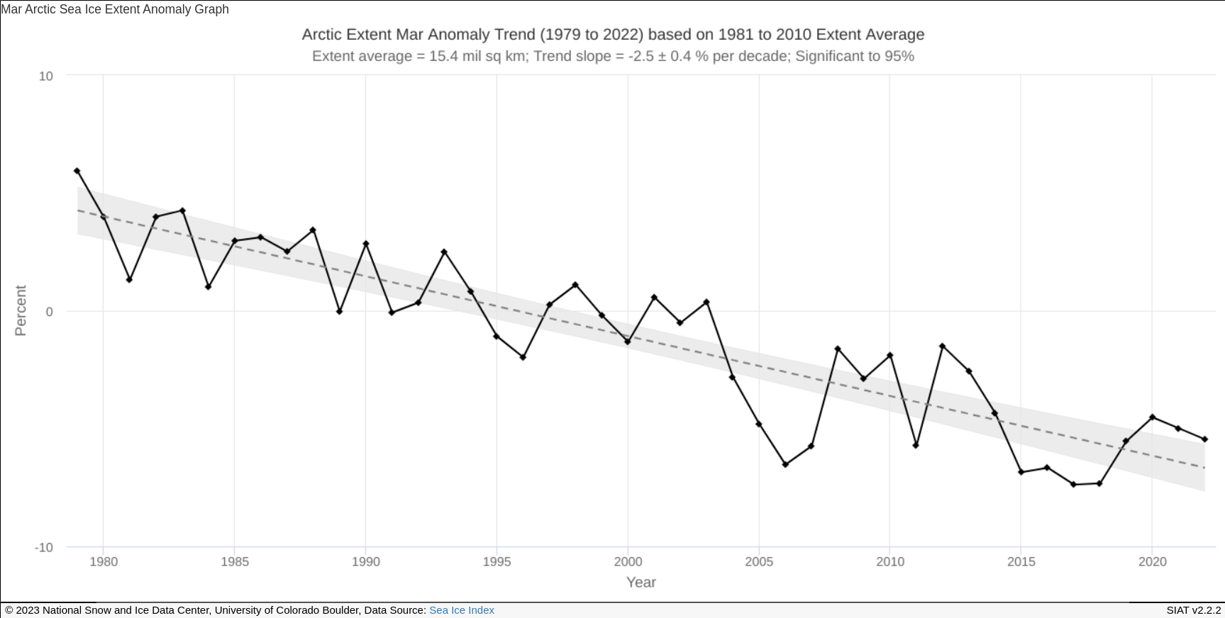 Trends in Extent Northern Hemisphere (Arctic) Sea Ice: Ice extent anomalies are plotted as a time series of percent differences between the total extent for the month in question, and the mean for that month, where the mean is based on the January 1979 - December 2000 portion of the data set. The trend, in percent change per decade, is obtained using least squares regression, and a 95% confidence interval for the resulting slope is given.